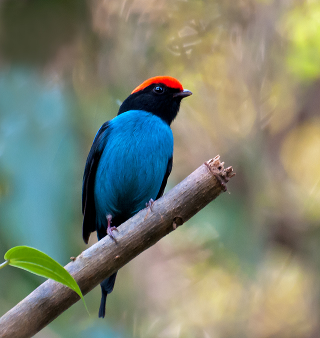 A male Blue Manakin in Piraju, São Paulo, Brazil.